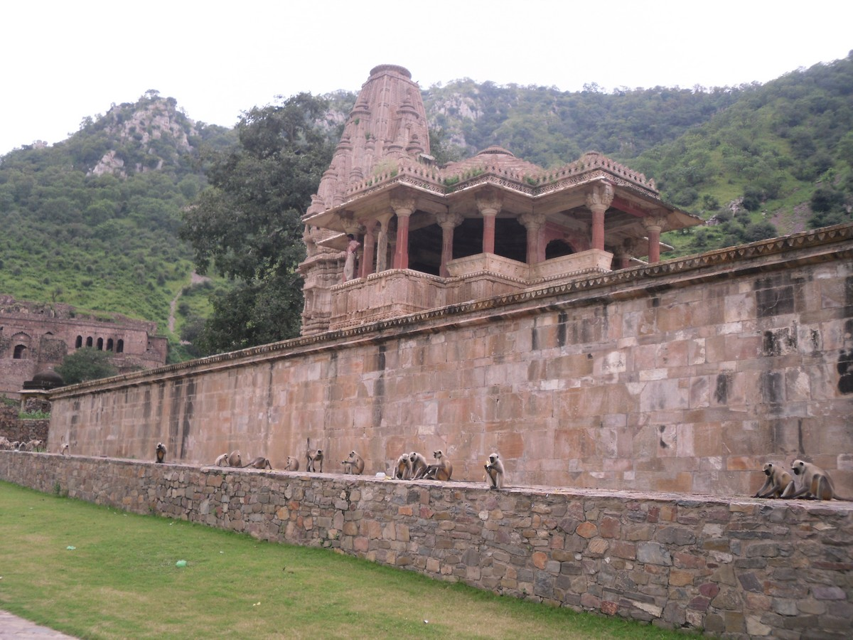 Gopinath Temple at Bhangarh, Rajasthan